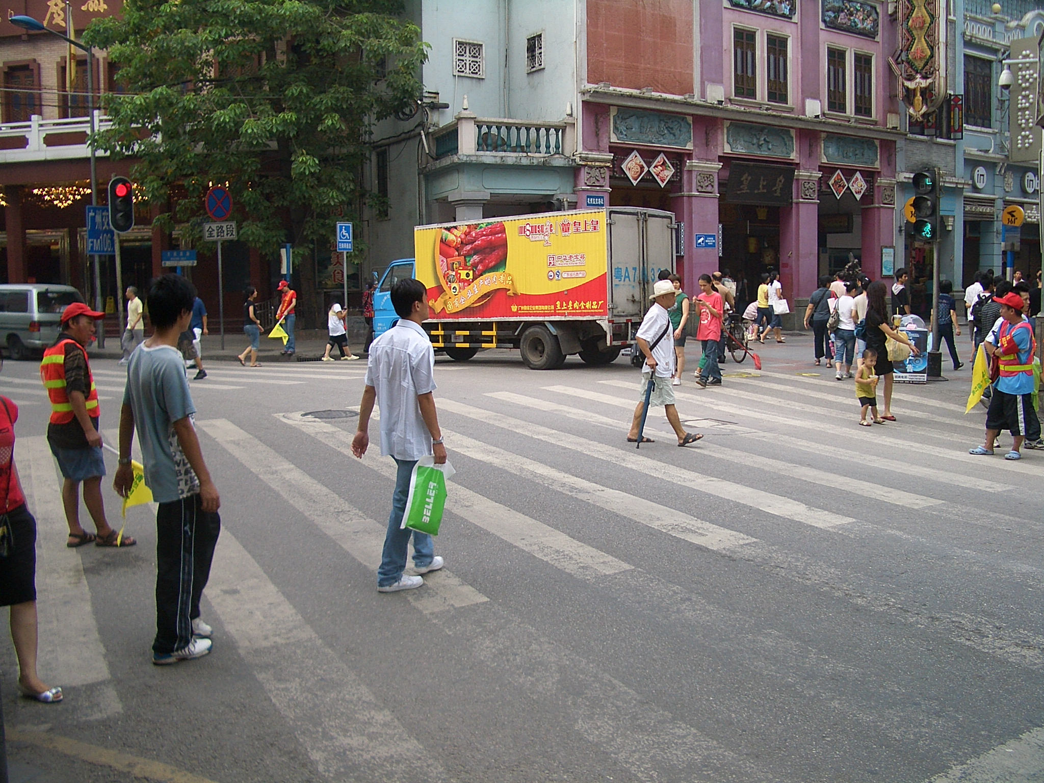 A street crossing in central Guangzhou (not far from Jiulu),complete with a few flag-armed street crossing wardens.